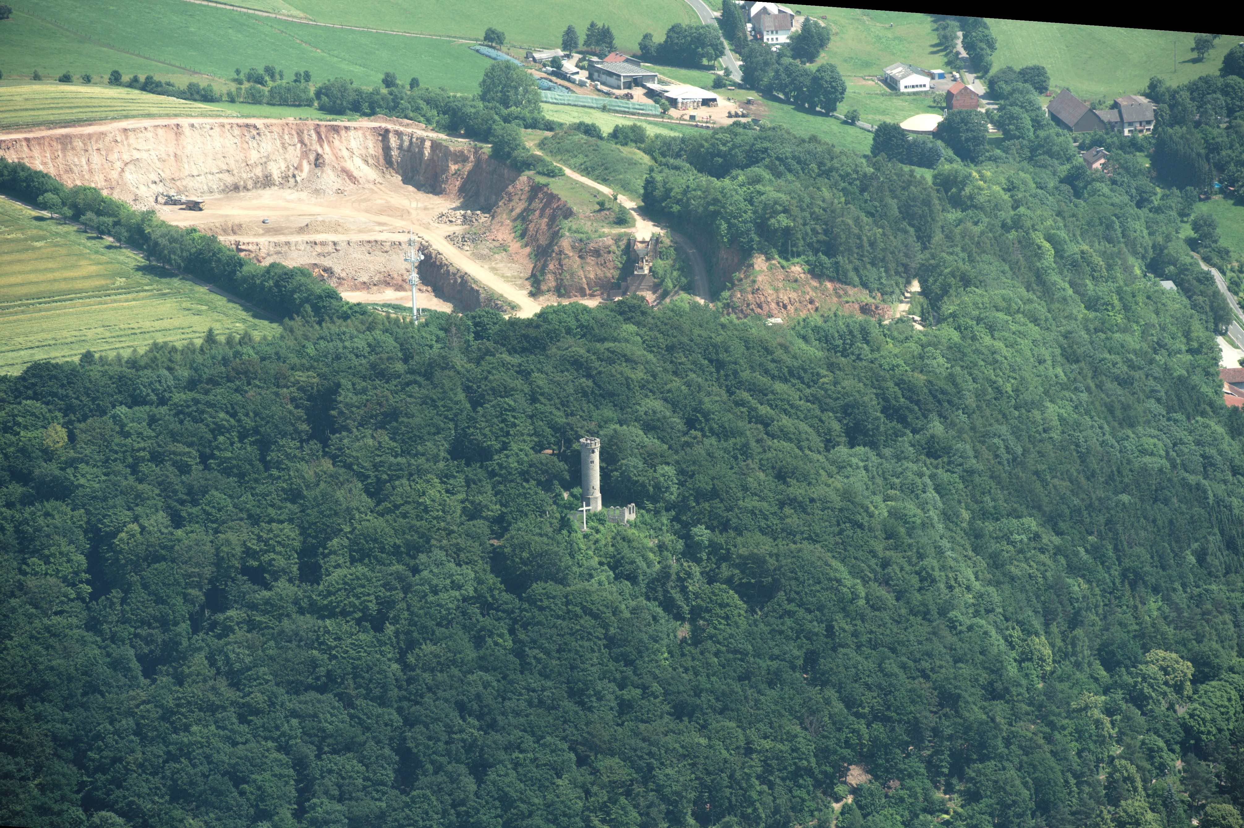 Fotoflug Sauerland-Ost, Marsberg mit Bielsteinturm und Steinbruch am Bielstein The making of this document was supported by the Community-Budget of Wikimedia Germany.